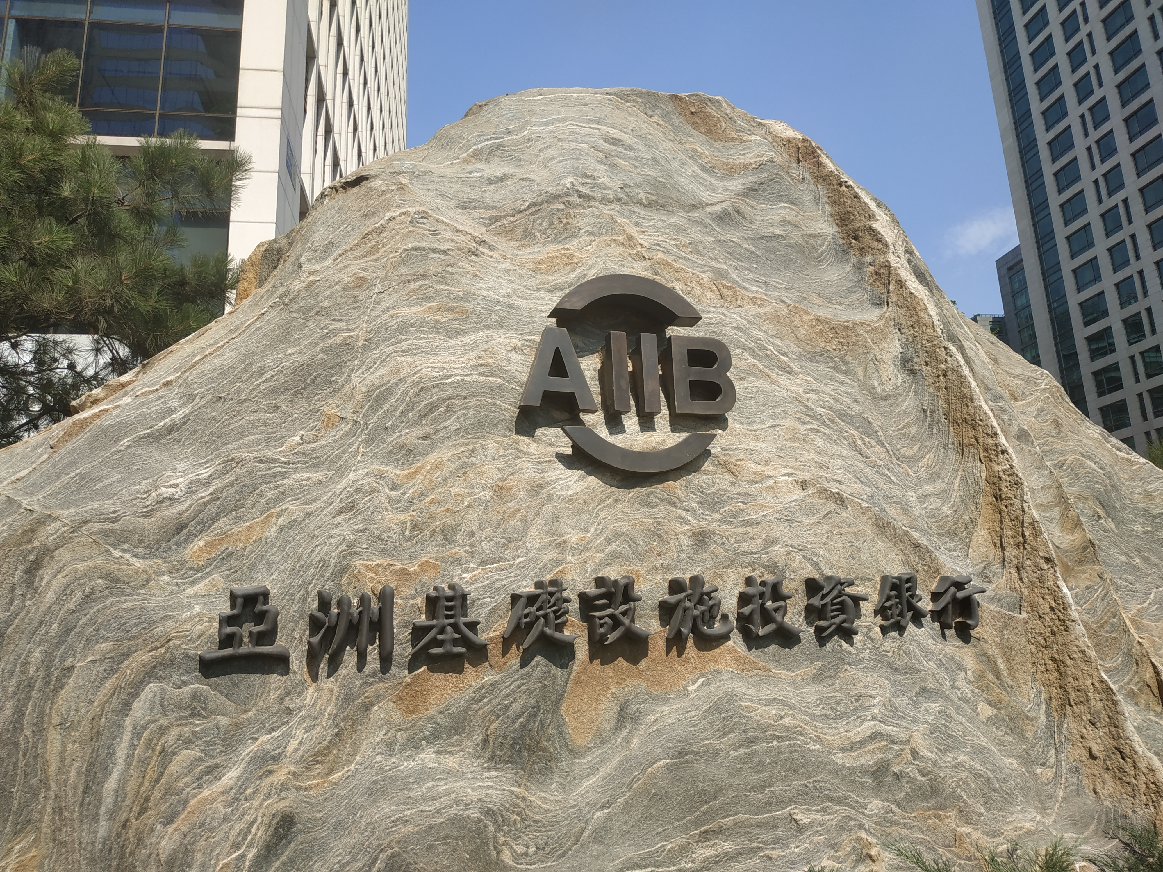 Stone with the name of Asian Infrastructure Investment Bank.